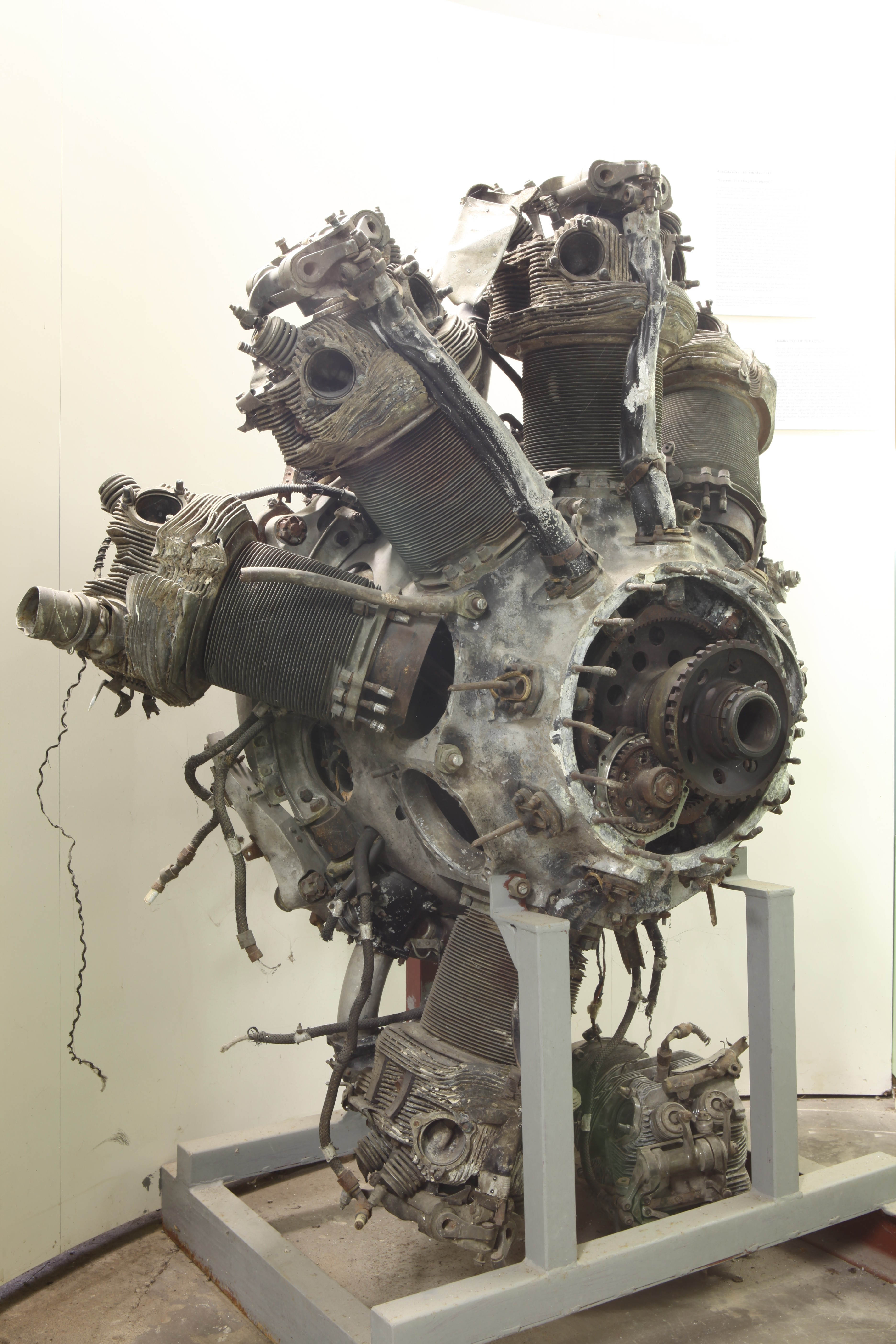 Bristol Pegasus engine from crashed RAF Handley Page HP 52 Hampden, at Luchtoorlogsmuseum Fort bij Veldhuis Genieweg 1 1967 PS HEEMSKERK.